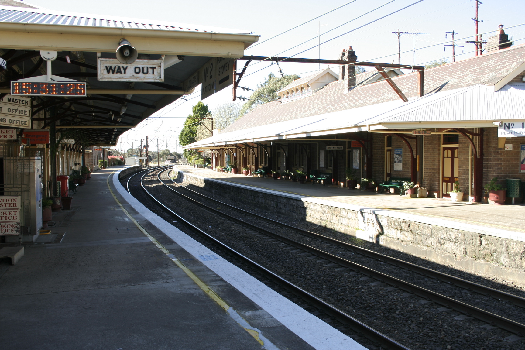 Mount Victoria station